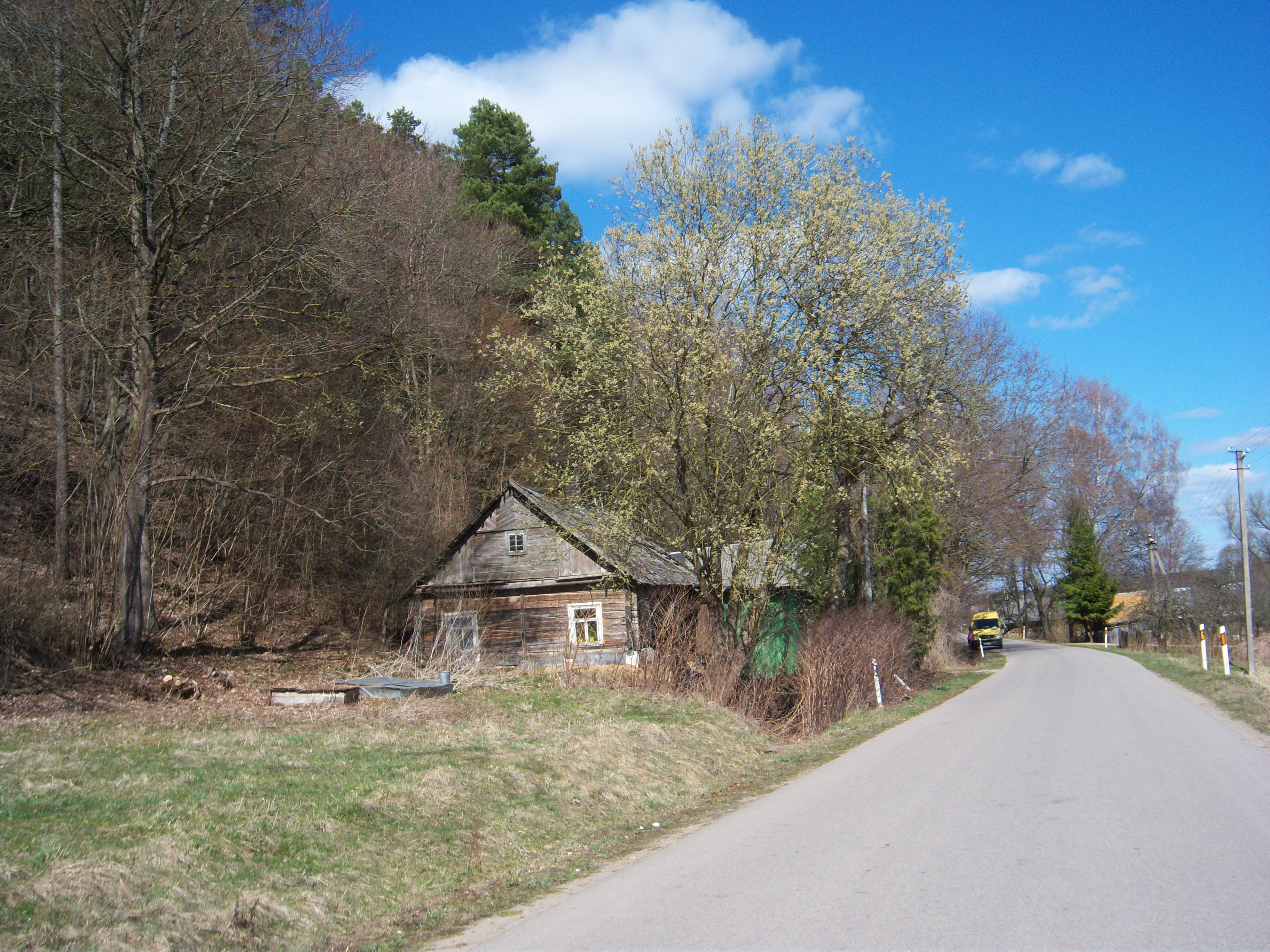 Siponys, Birštonas Municipality, Lithuania